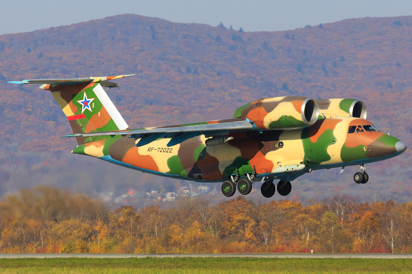 Russian Border Guard Antonov An-72P at Vladivostok Airport